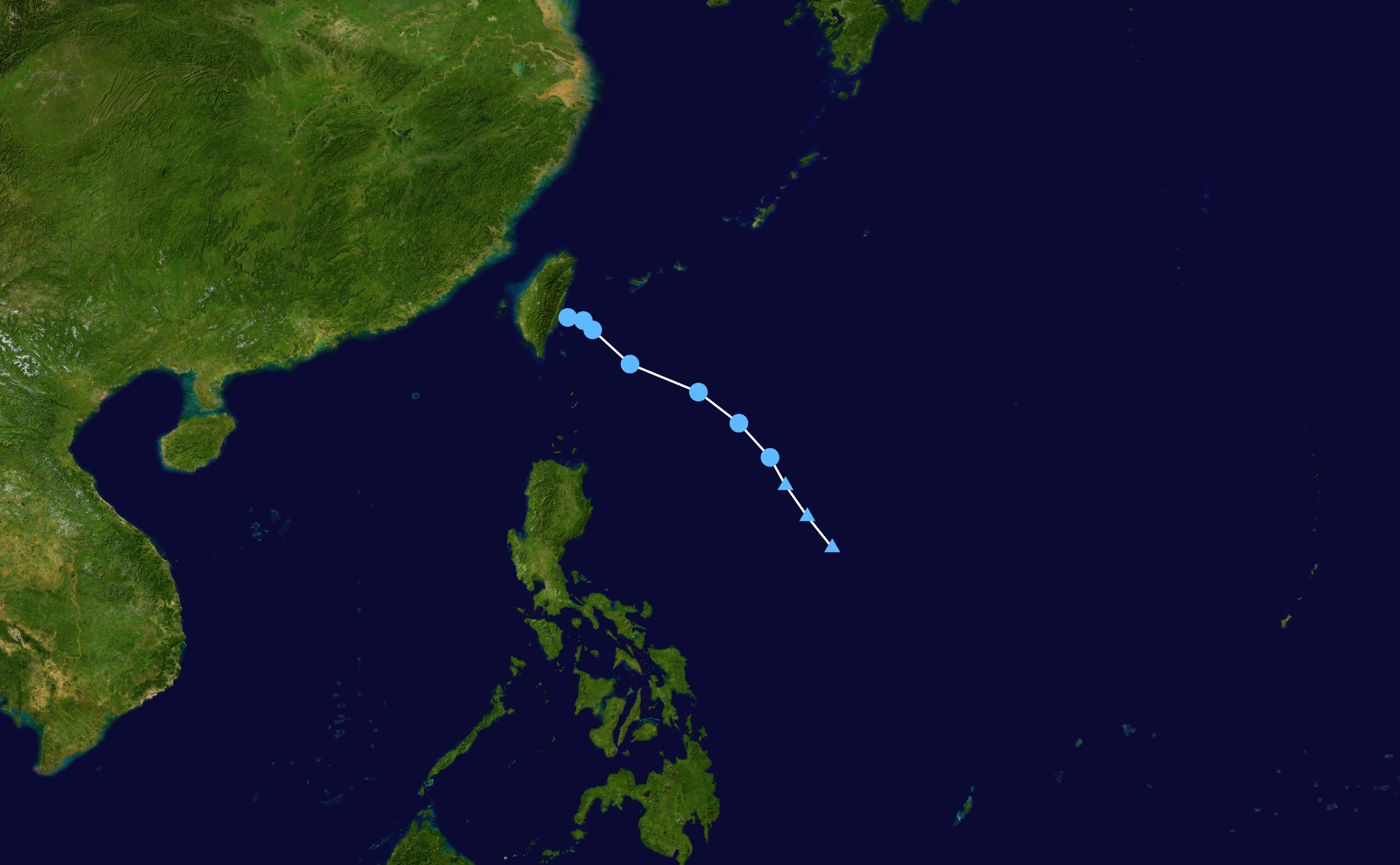 Track map of Tropical Storm Wutip of the 2007 Pacific typhoon season. The points show the location of the storm at 6-hour intervals. The colour represents the storm's maximum sustained wind speeds as classified in the Saffir–Simpson scale (see below), and the shape of the data points represent the nature of the storm, according to the legend below. Saffir–Simpson scale Tropical depression≤38 mph≤62 km/h Category 3111–129 mph178–208 km/h Tropical storm39–73 mph63–118 km/h Category 4130–156 mph209–251 km/h Category 174–95 mph119–153 km/h Category 5≥157 mph≥252 km/h Category 296–110 mph154–177 km/h Unknown Storm type Tropical cyclone Subtropical cyclone Extratropical cyclone / Remnant low / Tropical disturbance / Monsoon depression